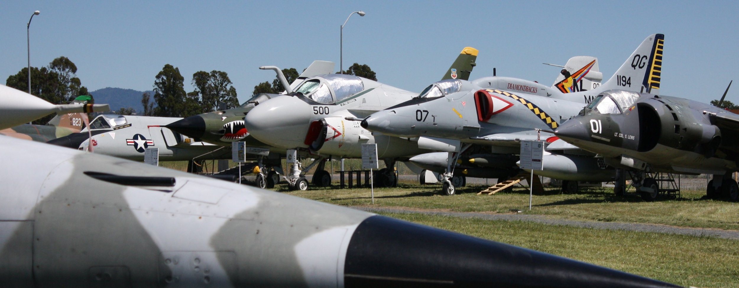 Pacific Coast Air Museum, Santa Rosa, Sonoma County, California